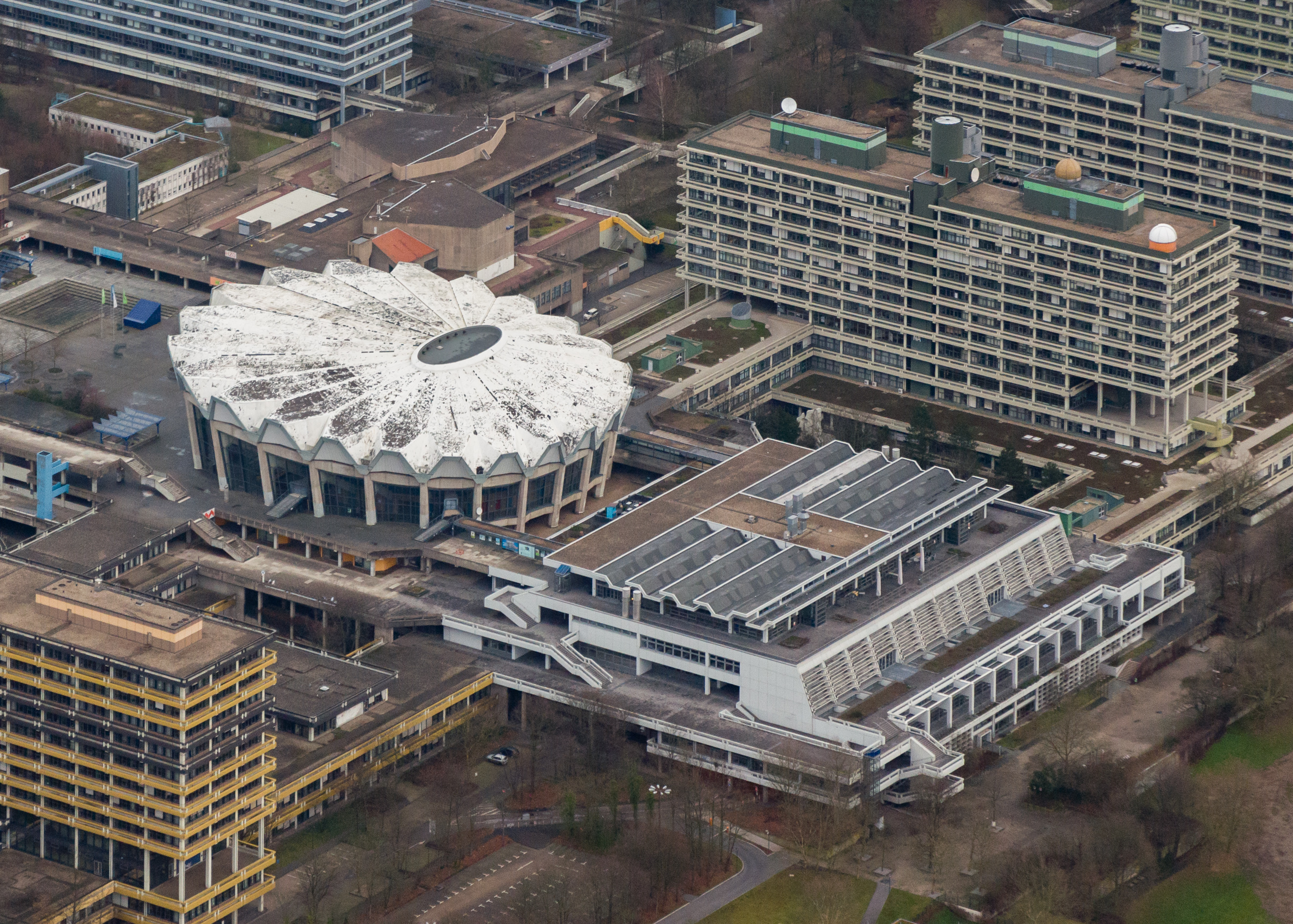 Aerial photograph of Ruhr University Bochum with Audimax and canteen